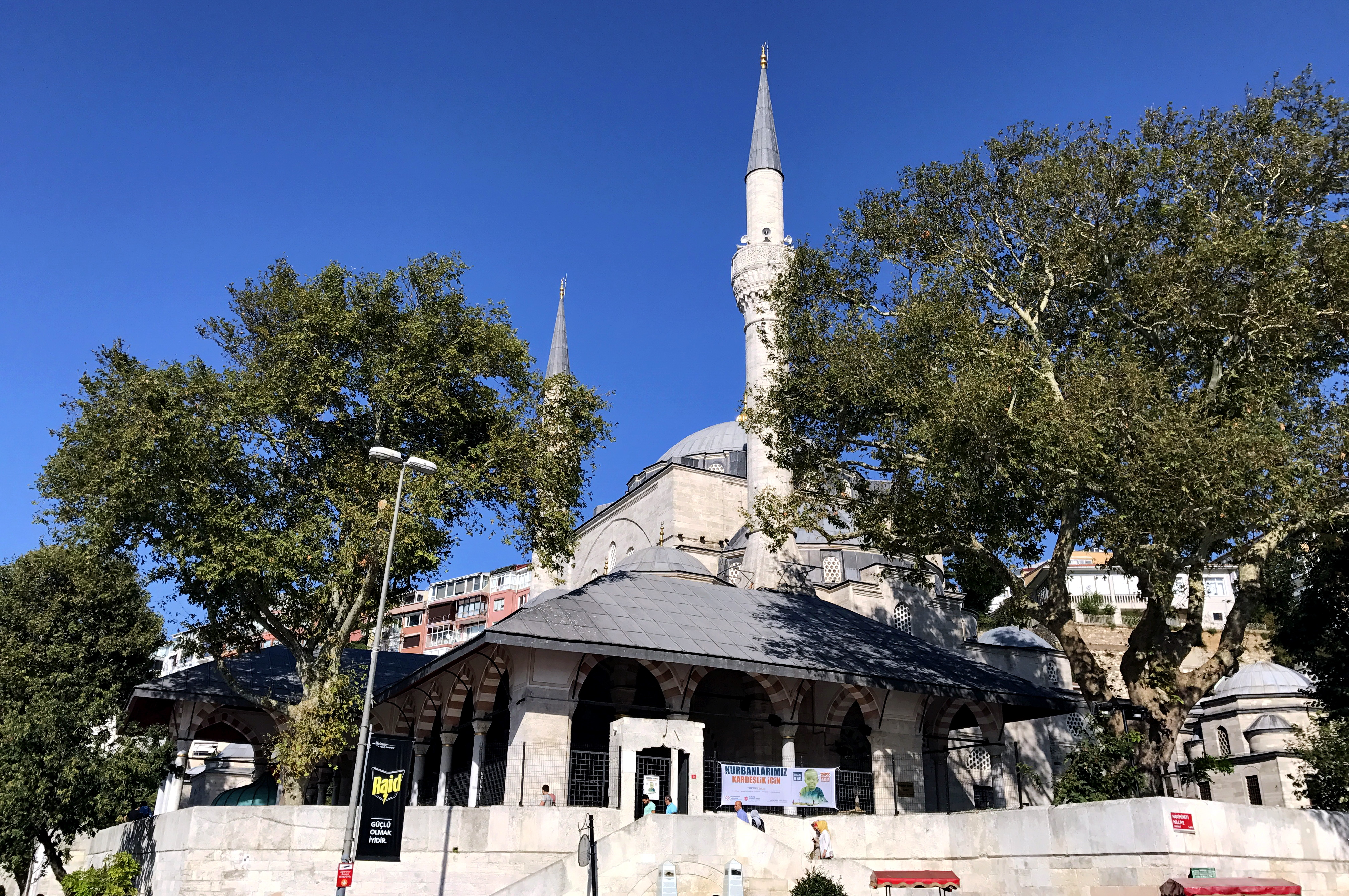 Mihrimah Sultan Mosque (built 1548), is an Ottoman mosque located in the historic center of the Üsküdar municipality in Istanbul, Turkey. It is the first of two mosques built by Mihrimah Sultan, daughter of Sultan Suleiman the Magnificent and wife of Grand Vizier Rüstem Pasha. It was designed by Mimar Sinan and built between 1546 and 1548.